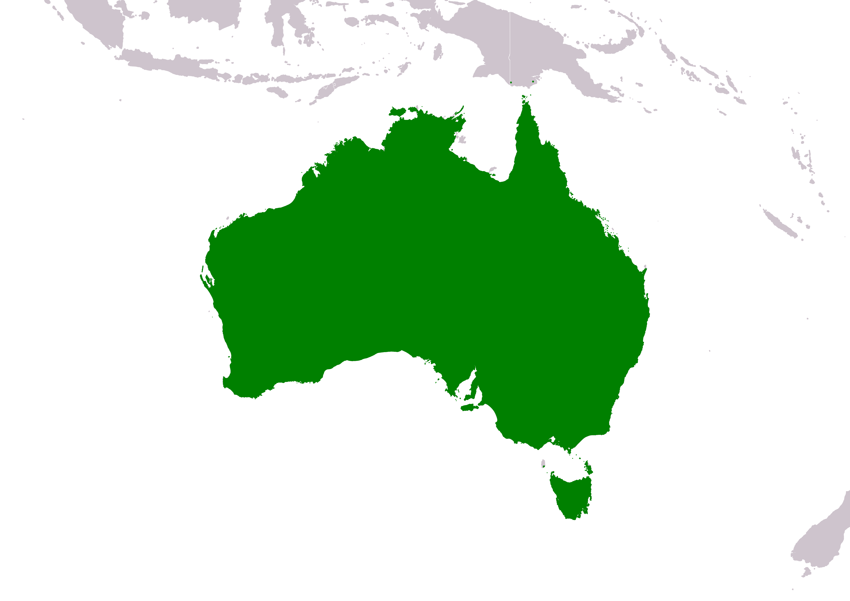 The distribution map of wedge-tailed eagle (Aquila audax) according to IUCN version 2019.1 ; key: Legend: Extant, resident (#008000)